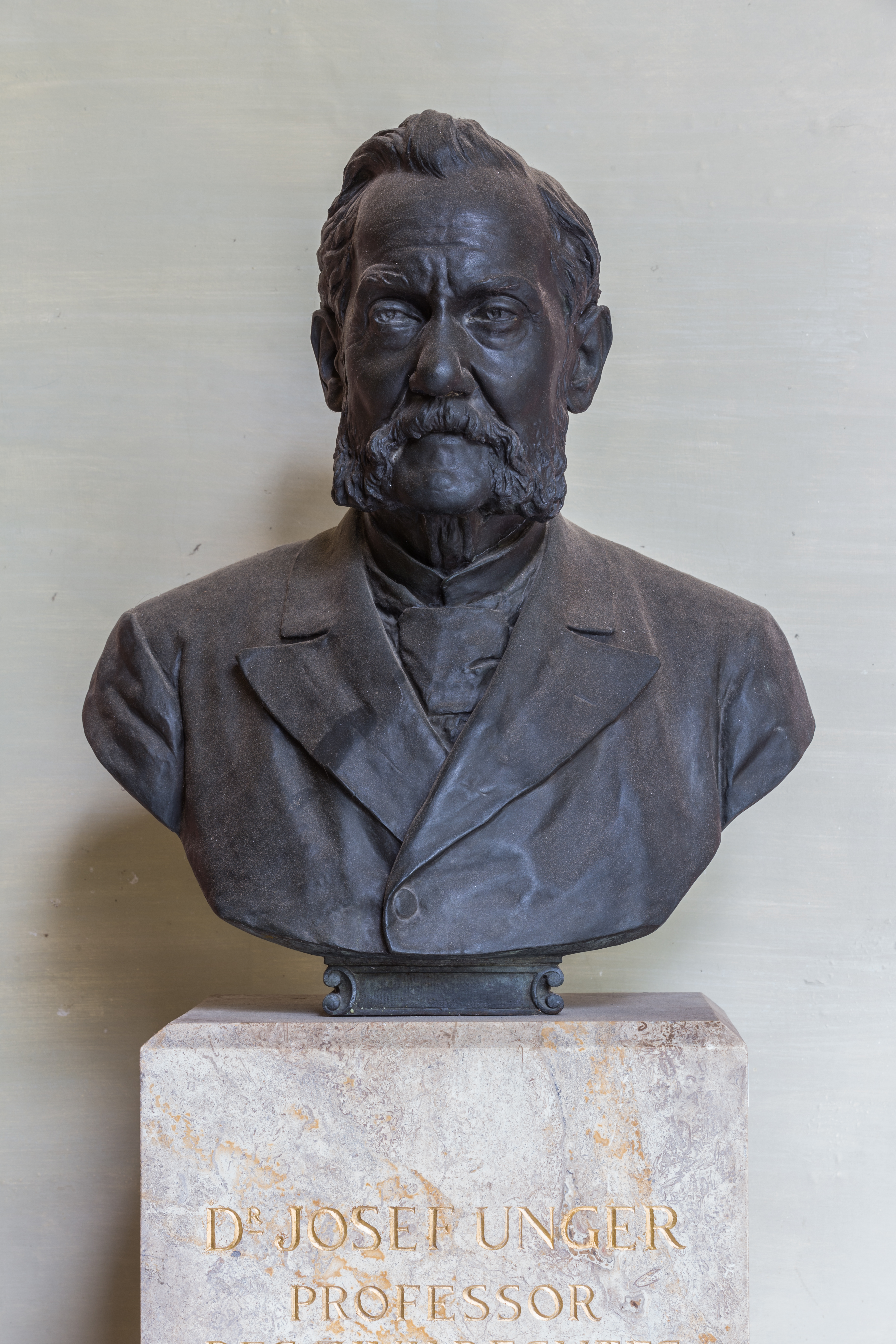 Josef Unger (1828-1913), bust (dark bronze) in the Arkadenhof of the University of Vienna, (Maisel# 65). Artist: Kaspar Clemens Eduard Zumbusch (1830-1915), unveiled 1928